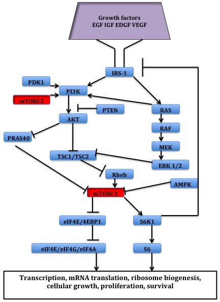 mTOR signal pathway